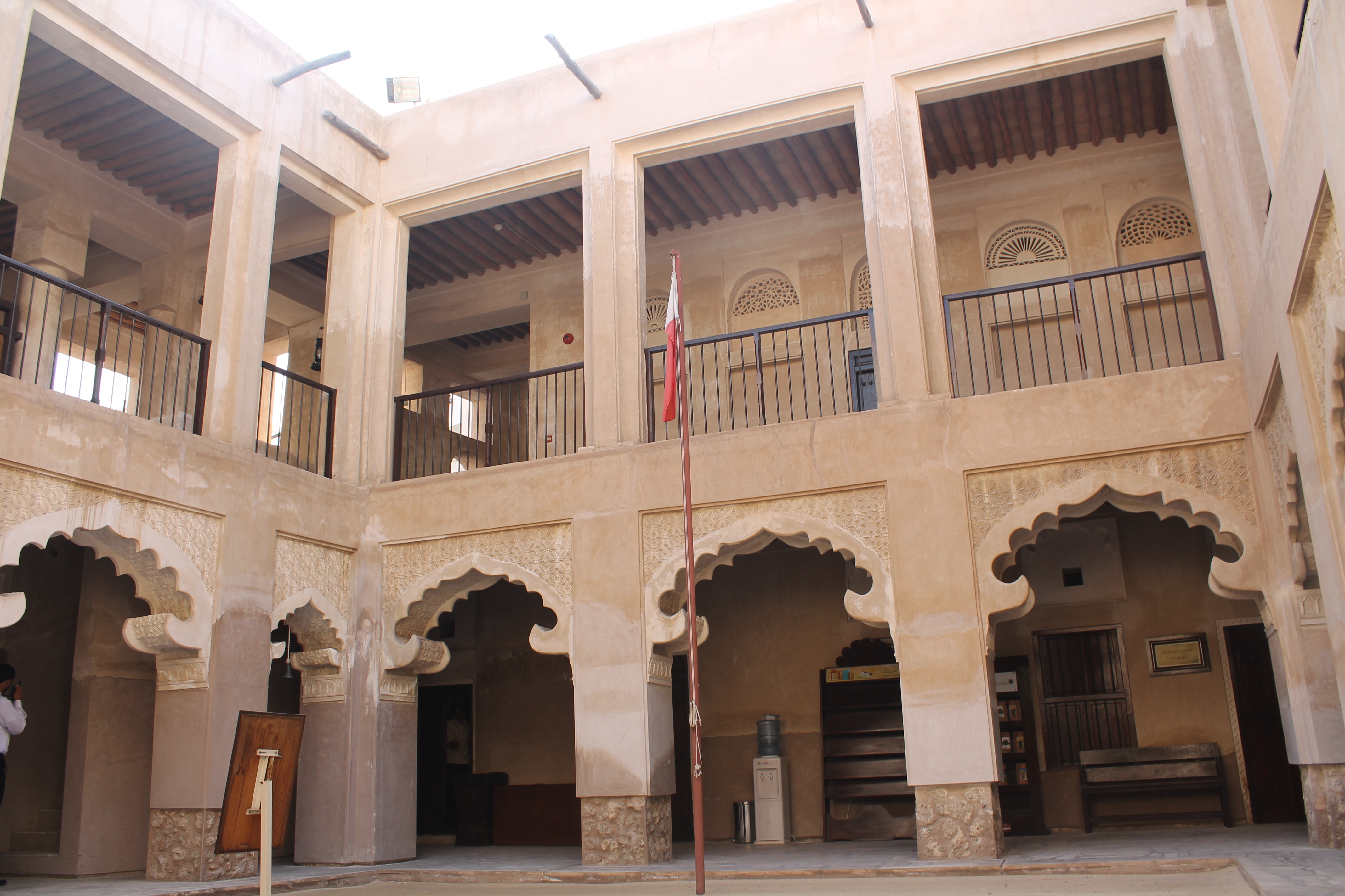 Outdoor courtyard where students used to gather in lines every morning - (Dubai Culture & Arts Authority)